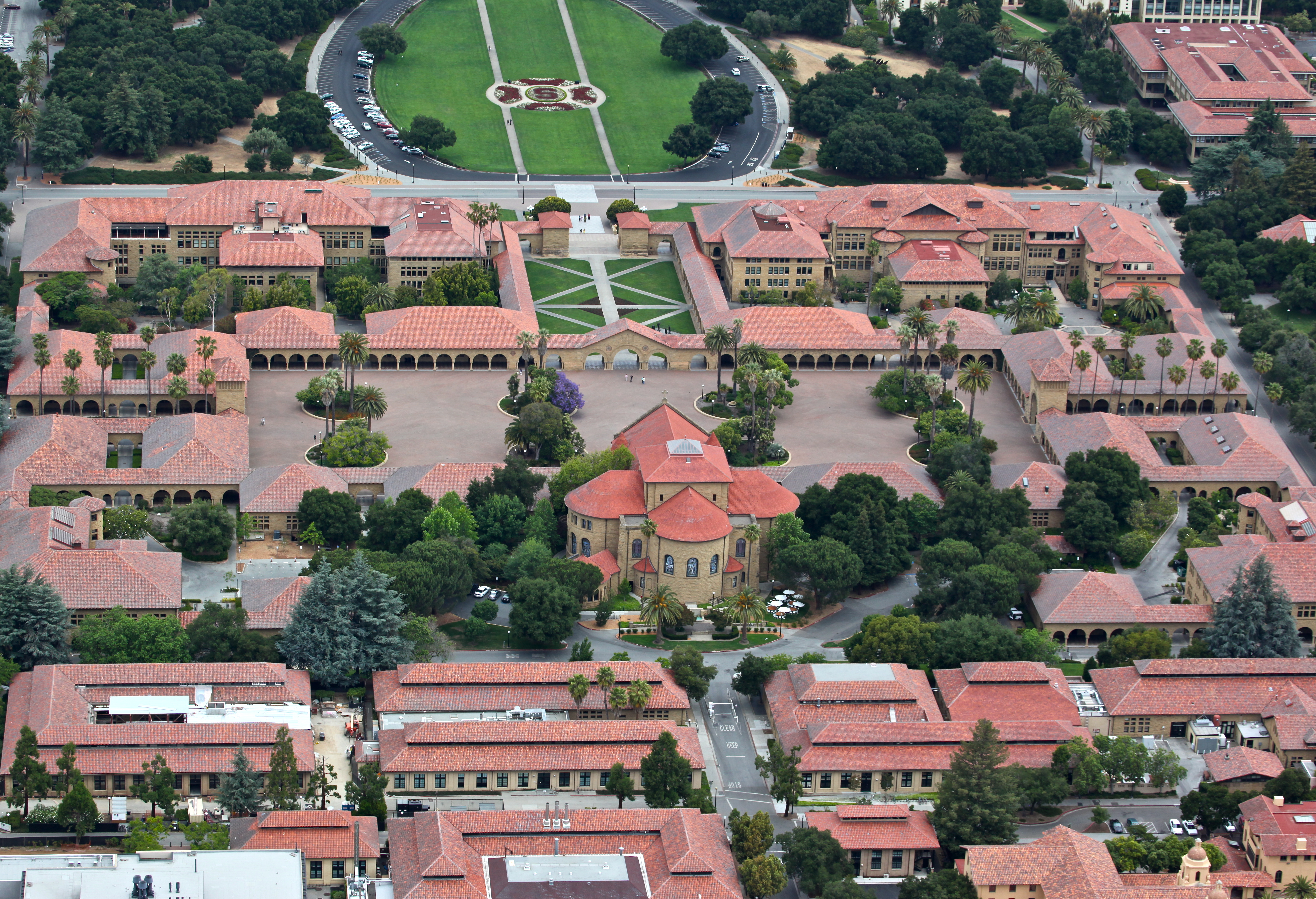 Flying High — Jem Surfing on a Rocket — Air Is this Heaven — Euphoria Songs in my head right now, as I get ready to hit the road again. P.S. Been feeding the alumni photo site